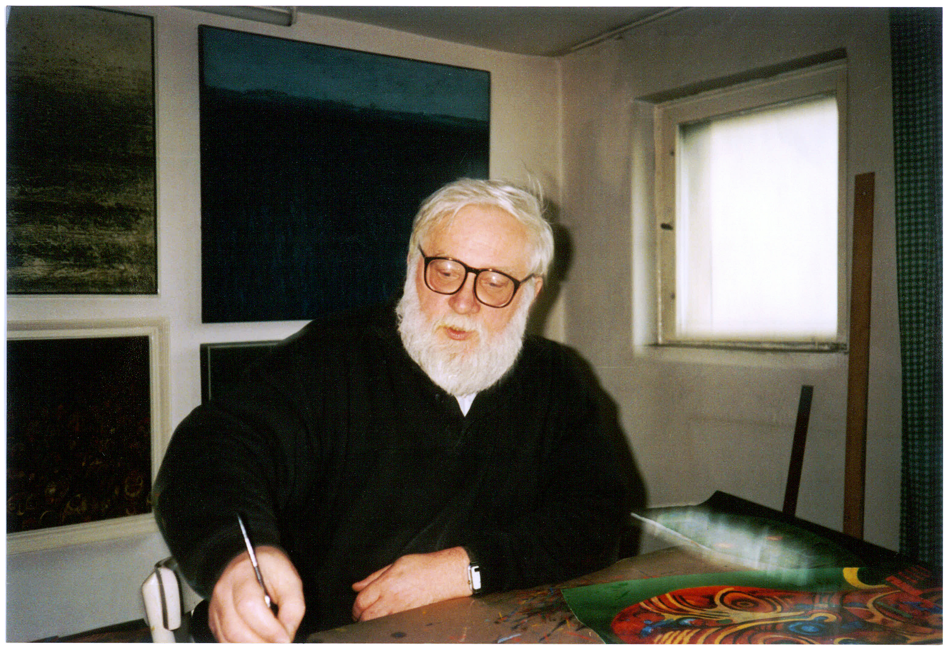 Artist Stanislaw Janusz Janowski at work. Szczecin, Poland, 1992